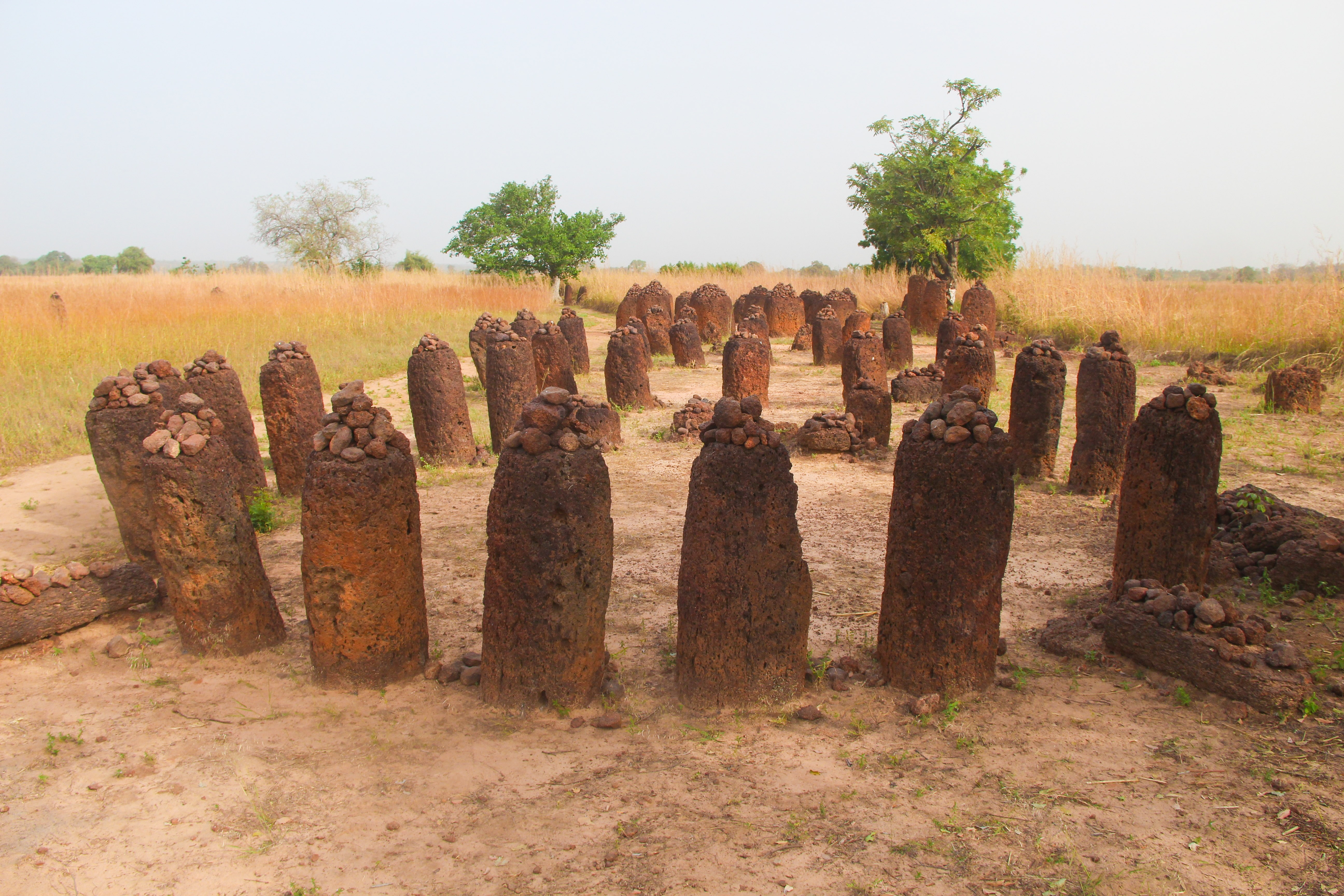 Groepen stenen die een patroon vormen Wassu Gambia